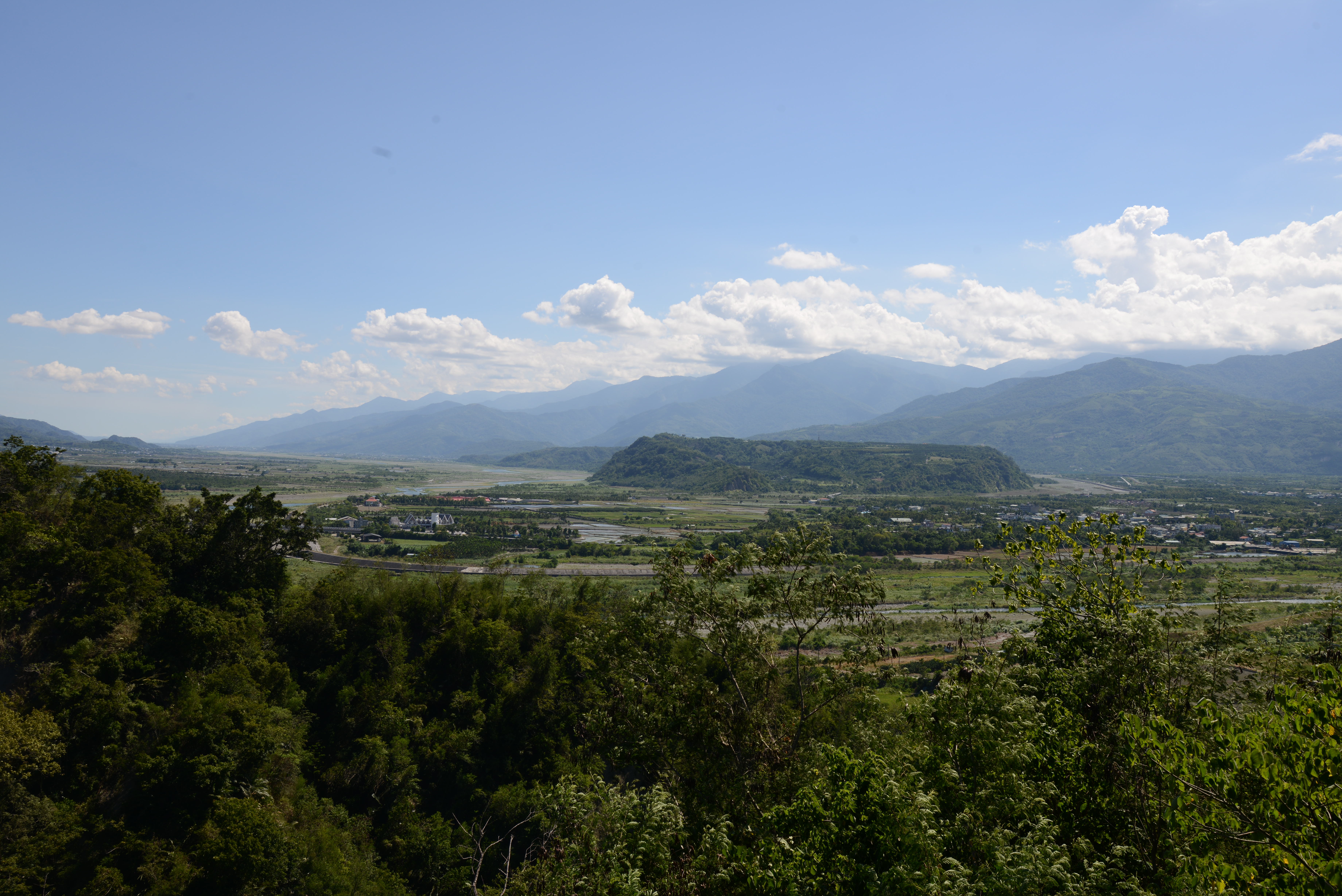 The Wuhe Plateau in the middle of the valley.